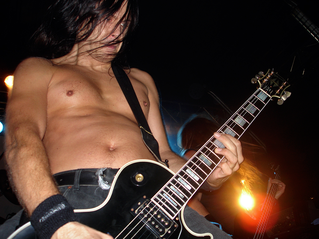 Arve Isdal, guitarrist of Enslaved live at Party.San (2006).